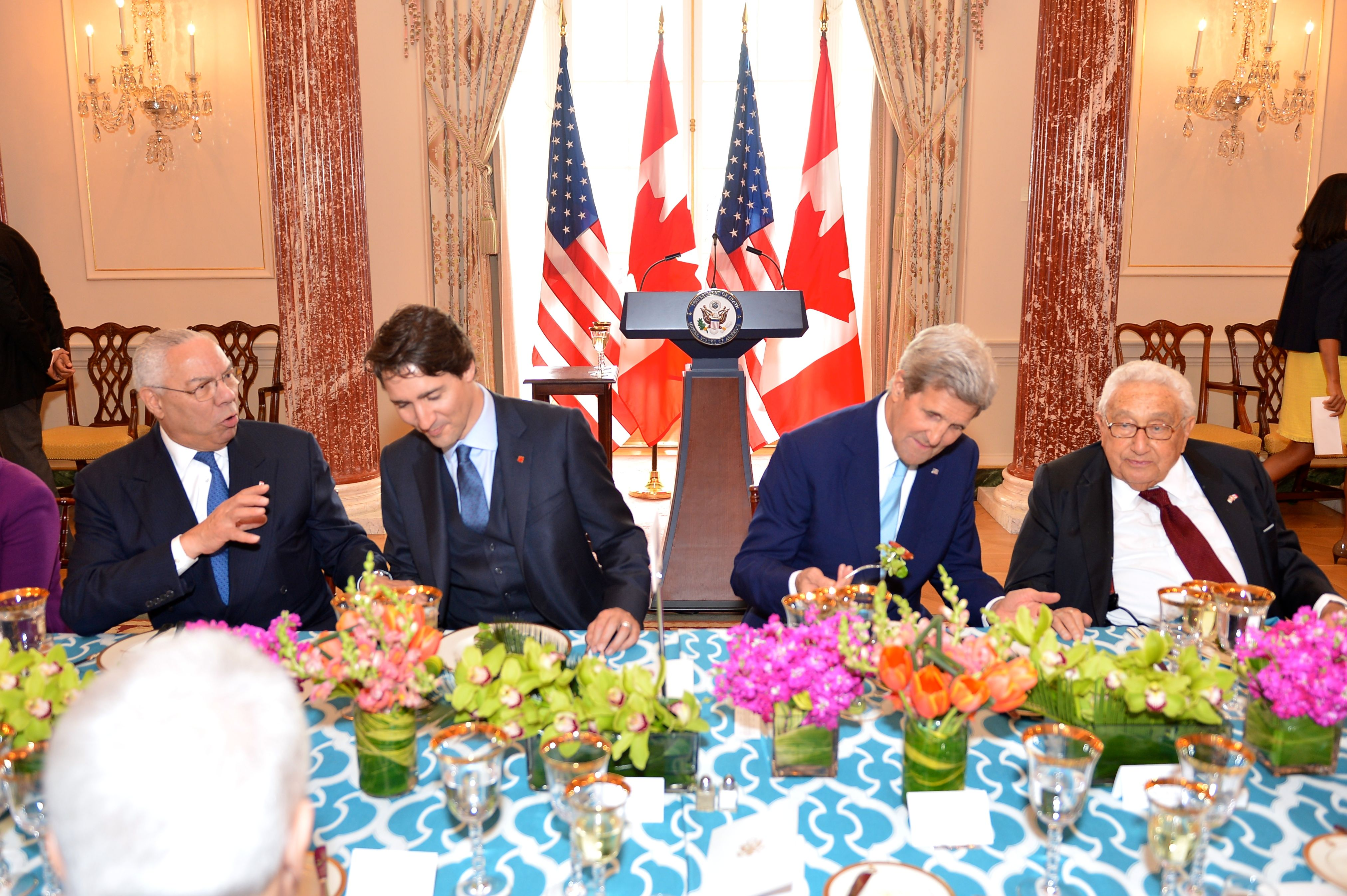 From left to right, former U.S. Secretary of State Colin Powell, Canadian Prime Minister Justin Trudeau, U.S. Secretary of State John Kerry, and former U.S. Secretary of State Henry Kissinger chat at the State Luncheon in honor of the Prime Minister at the U.S. Department of State in Washington, D.C., on March 10, 2016. [State Department photo/ Public Domain]